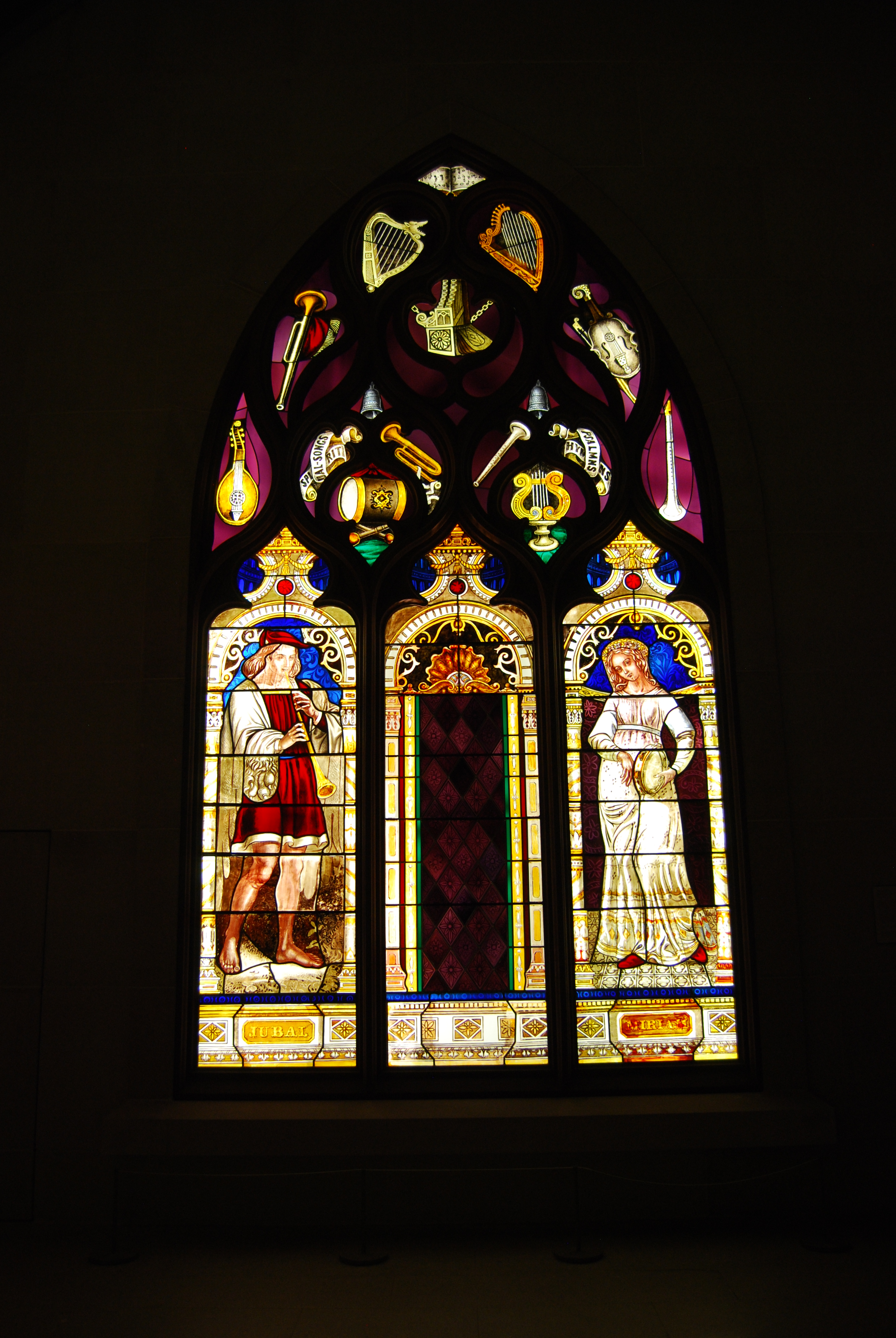 Miriam and Jubal William Jay Bolton (1816-1884) John Bolton (1818-1898) Pelham, New York, 1843-1848 Painted and stained leaded glass Holy Trinity Church, Brooklyn, New York